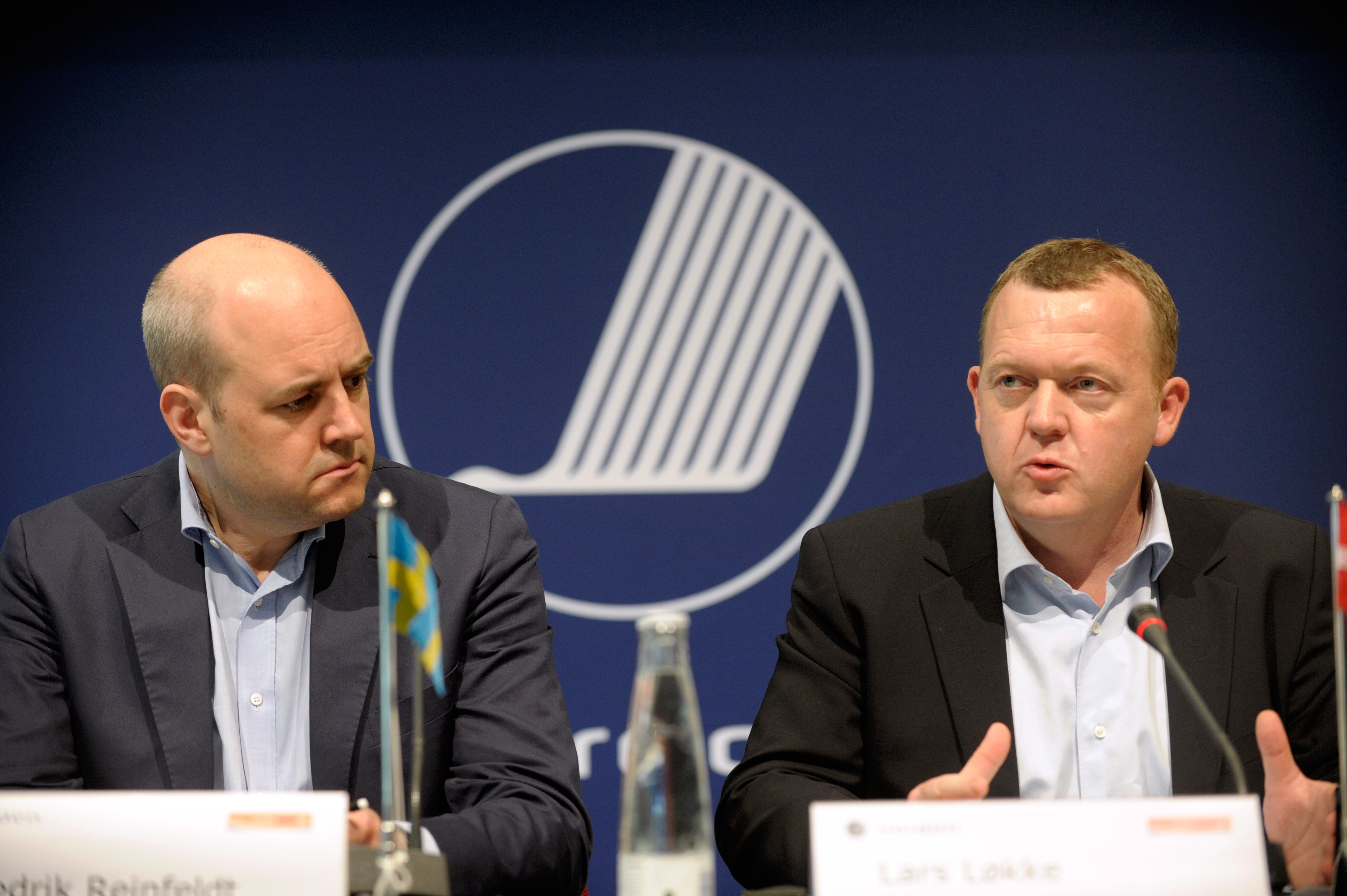 Sveriges statsminister Fredrik Reinfeldt och Danmarks statsminister Lars Løkke Rasmussen på pressmöte på Nordiskt globaliseringsforum 2010. Keywords: Lars Løkke Rasmussen, Fredrik Reinfeldt